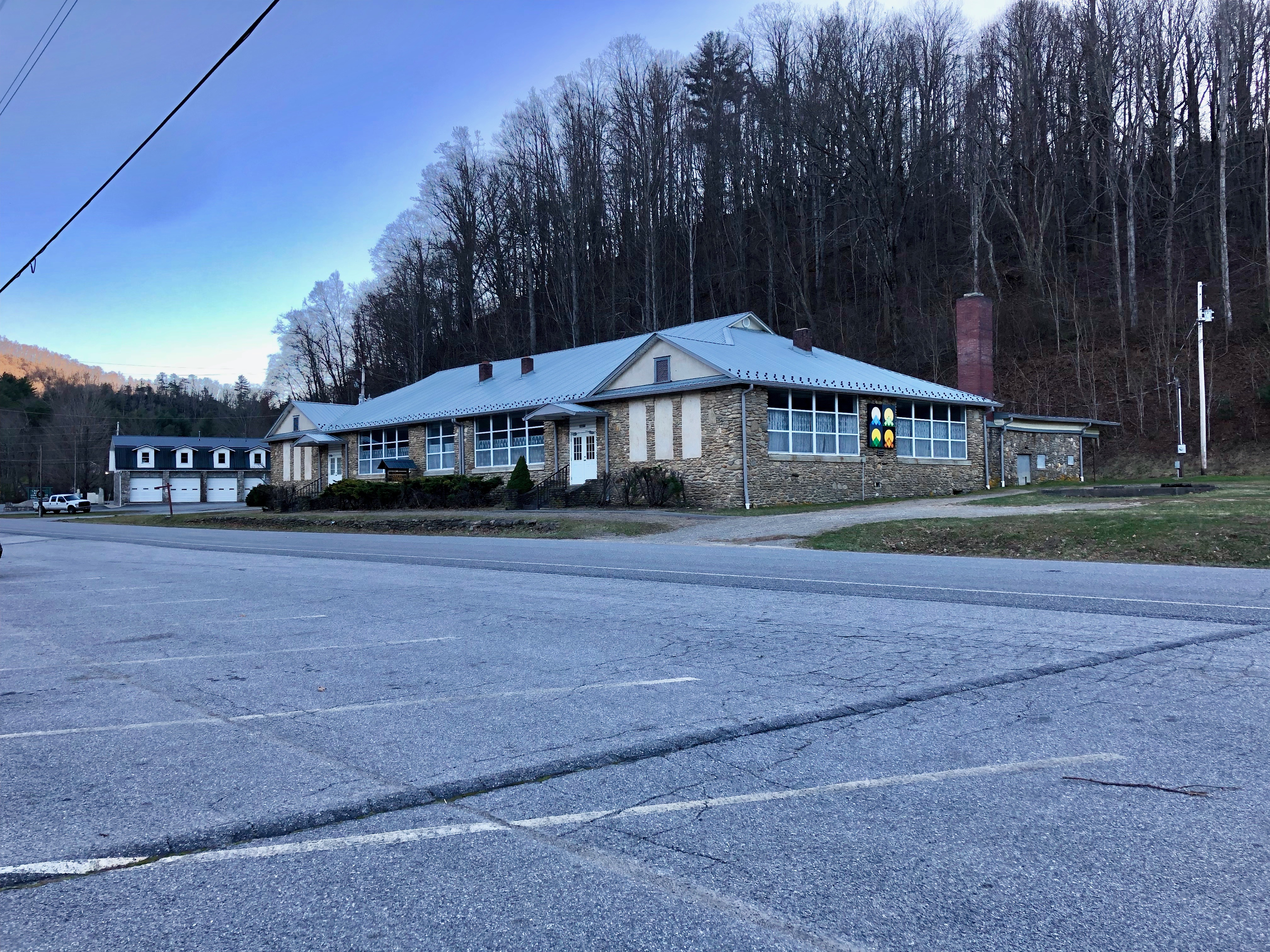 The old Cruso School was built in 1928 to serve the Cruso community along US Highway 276 between Waynesville and the Blue Ridge Parkway. The building was used for Elementary students up until 1966, when it was closed following a massive district-wide consolidation that saw the opening of Tuscola High School and Pisgah High School, the closing of the old High School programs at Bethel, Fines Creek, Crabtree-Iron Duff, Waynesville, Canton, and Reynolds, the closing of the Junior High Programs at Fines Creek, Crabtree-Iron Duff, and Reynolds, and the closing of the Elementary programs at Cruso, Saunook, Allens Creek, Reynolds, and Pigeon Street. Today, along with the school at Pigeon Street, the building is well-preserved and in use as a community center.